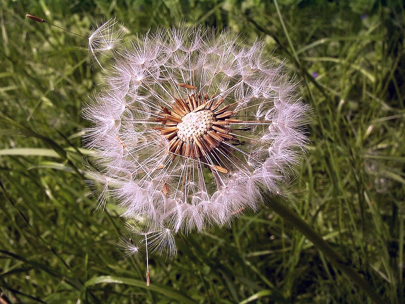 Dandelion (Taraxacum sect. Ruderalia; syn. Taraxacum officinale agg.)